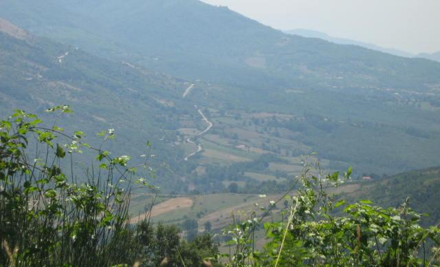 Panoramic of southern Pruno Valley from the "Croce di Pruno" (middle of area). In the Cilento and Vallo di Diano National Park — in Campania.